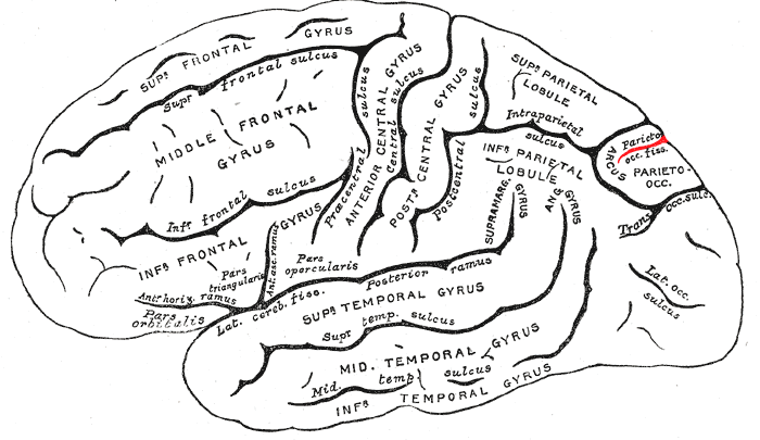 Parietooccipital Fissure ( parieto-occipital sulcus ). Medial surface of left cerebral hemisphere. Figure 726 from Gray's Anatomy.